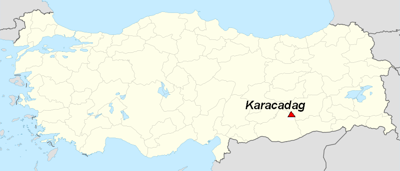 Karacadag volcano location map Turkey